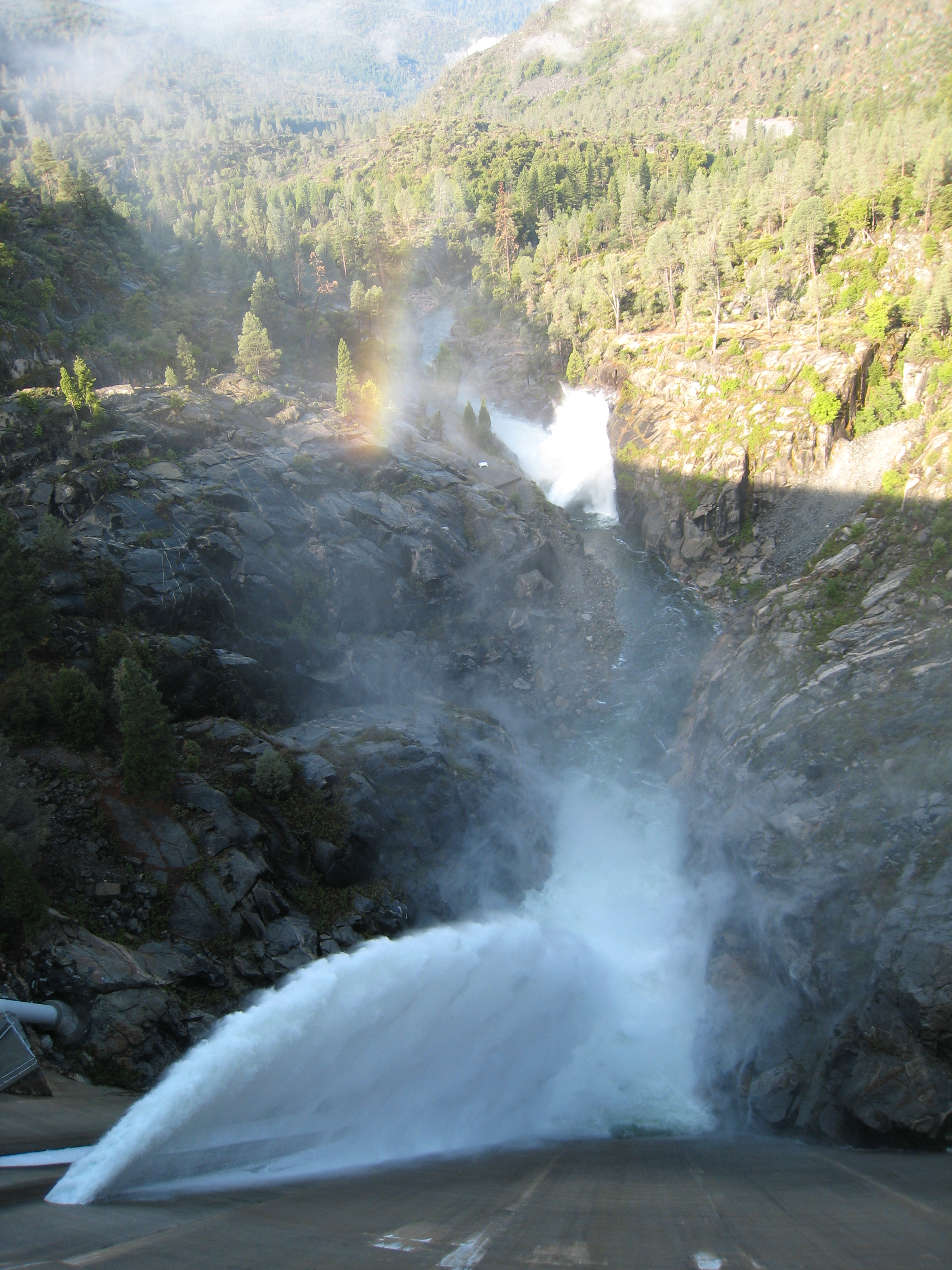 O'Shaughnessy Dam looking downstream towards the Poopenaut Valley